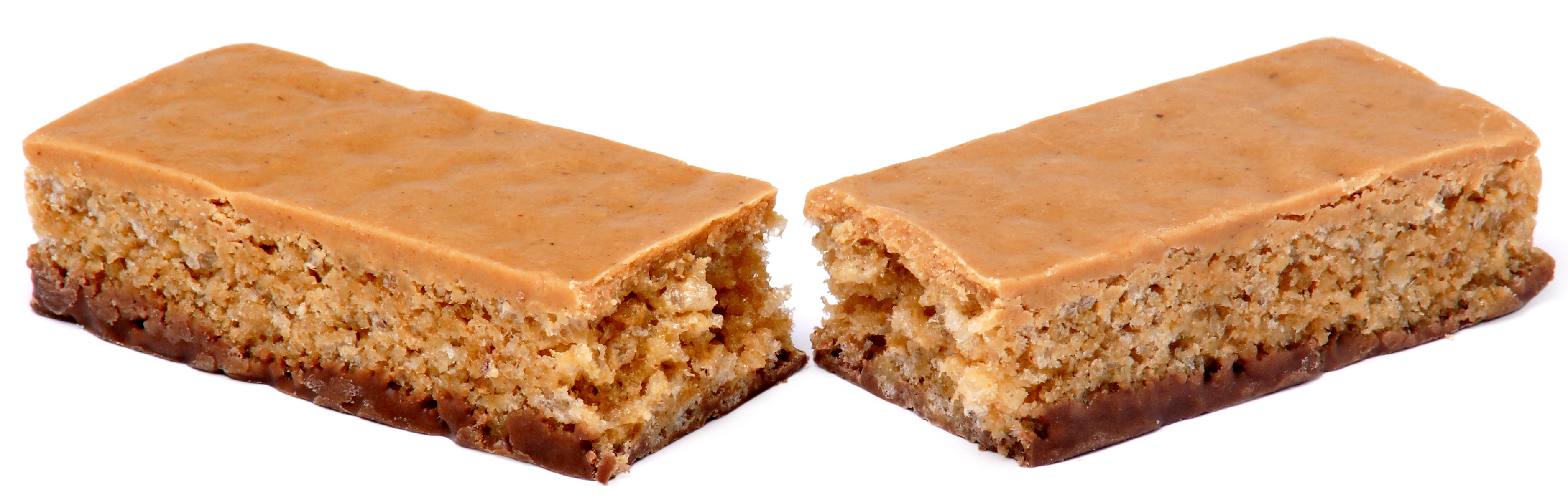 A Reese's Snack Barz split in half.